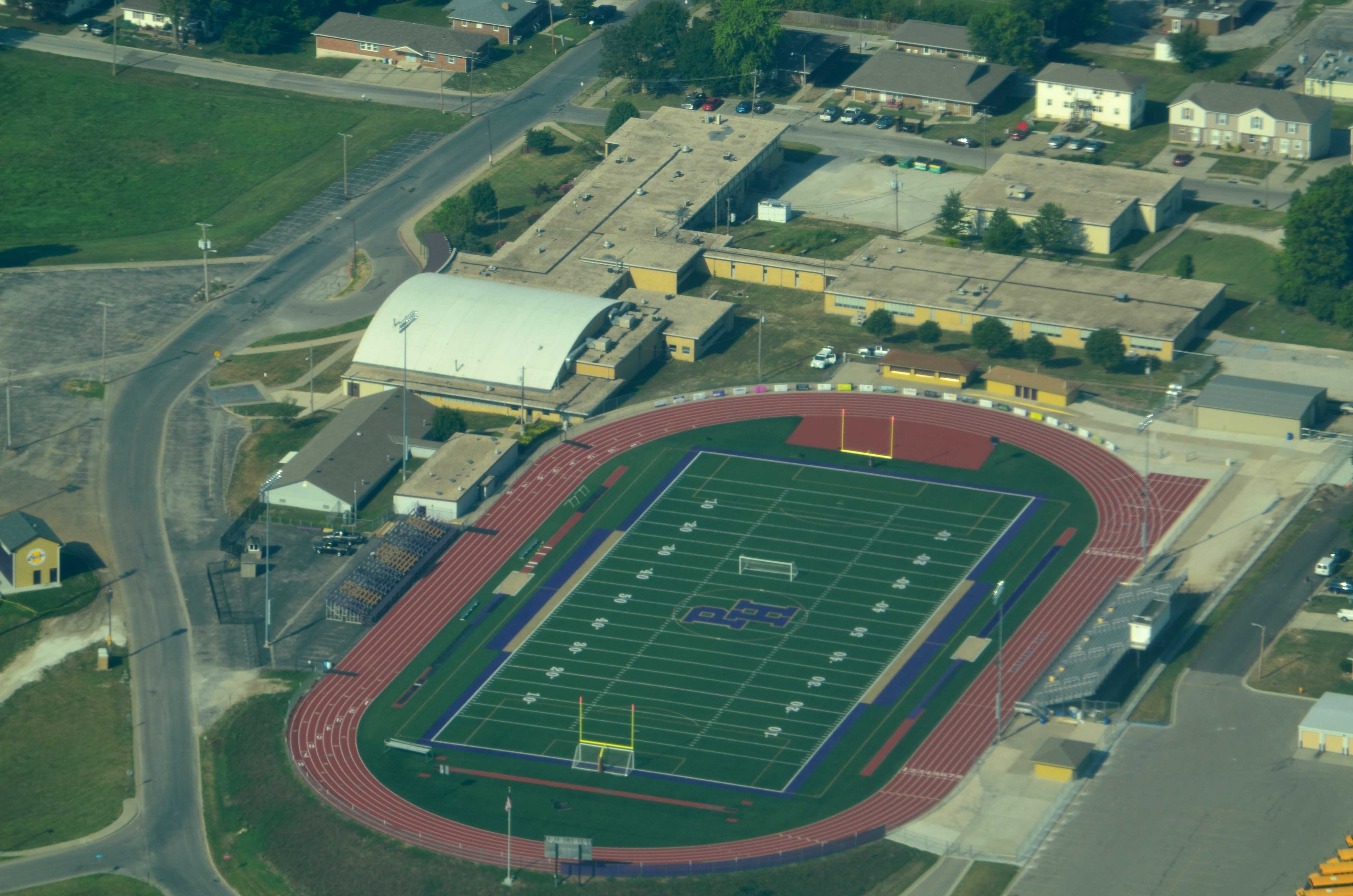 Pleasant Hill High School Stadium = Pleasant Hill, Missouri